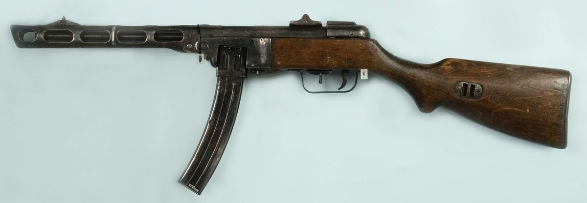 A Soviet made PPSh-41 submachine gun with a box magazine. This particular weapon was manufactured in 1942. From the collections of the Swedish Army Museum.